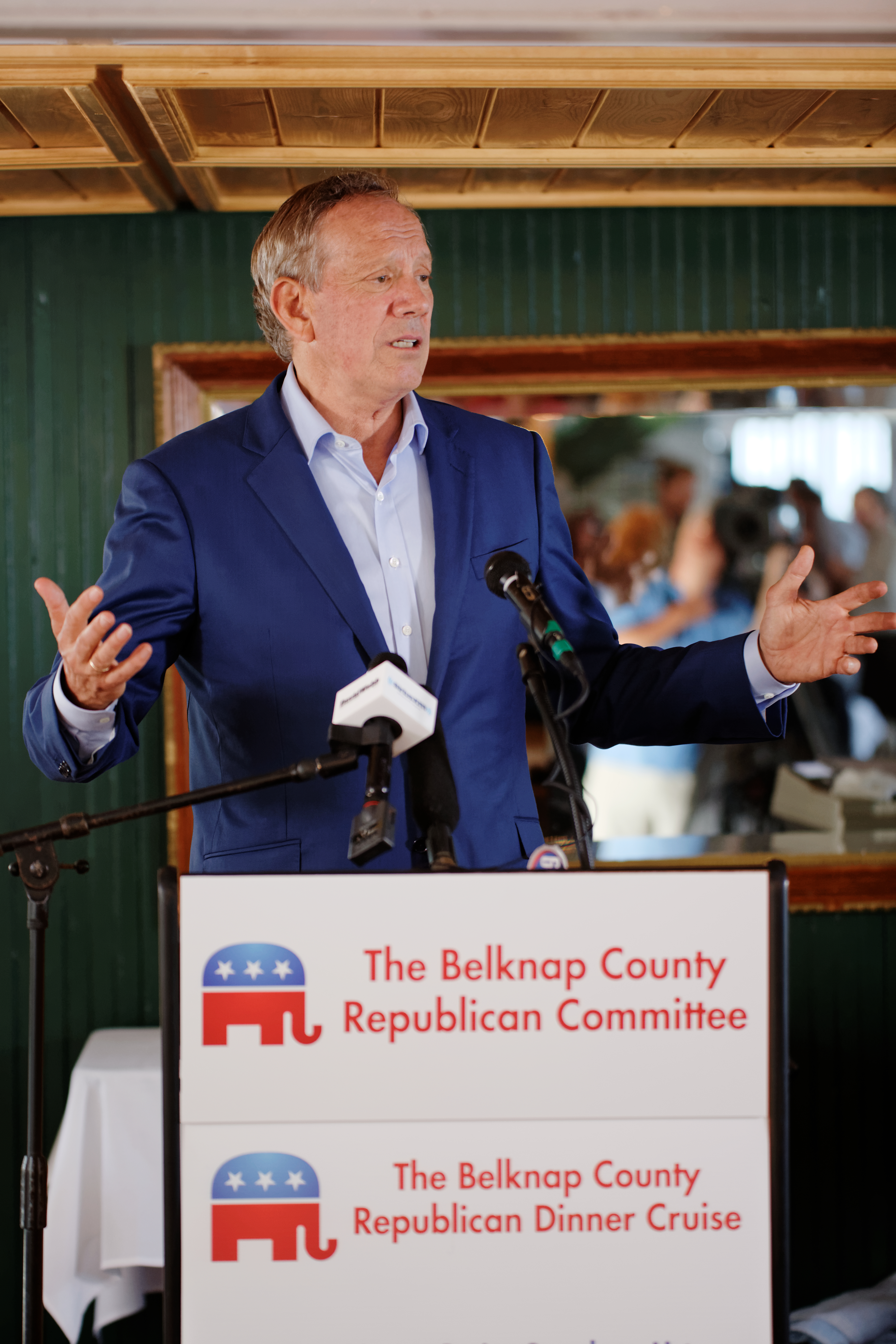 George Elmer Pataki (/pəˈtɑːki/[citation needed]; born June 24, 1945) is an American lawyer and politician who served as the 53rd Governor of New York (1995-2006). A member of the Republican Party, Pataki was a lawyer who was elected Mayor of his home town of Peekskill, later going on to be elected to State Assembly, then State Senate. In 1994, he ran for Governor against three-term incumbent Mario Cuomo, defeating him by over a three-point margin as part of the Republican Revolution of 1994. Pataki, succeeding a three-term Governor, would himself be elected to three consecutive terms, and was one of only three Republican governors of New York elected since 1923, the others being Thomas Dewey and Nelson Rockefeller. In early 2015, Pataki began exploring a candidacy for the Republican nomination for President of the United States in 2016, and announced his candidacy on May 28, 2015.